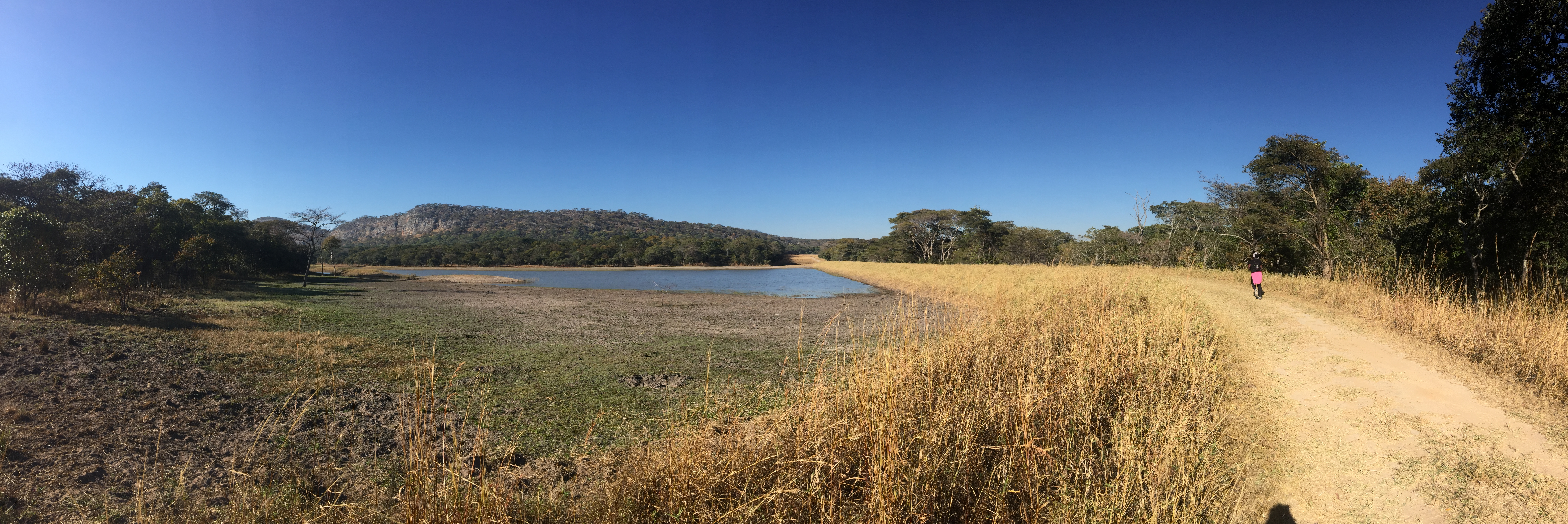 long view shot This is an image with the theme "Africa on the Move or Transport" from: Zambia